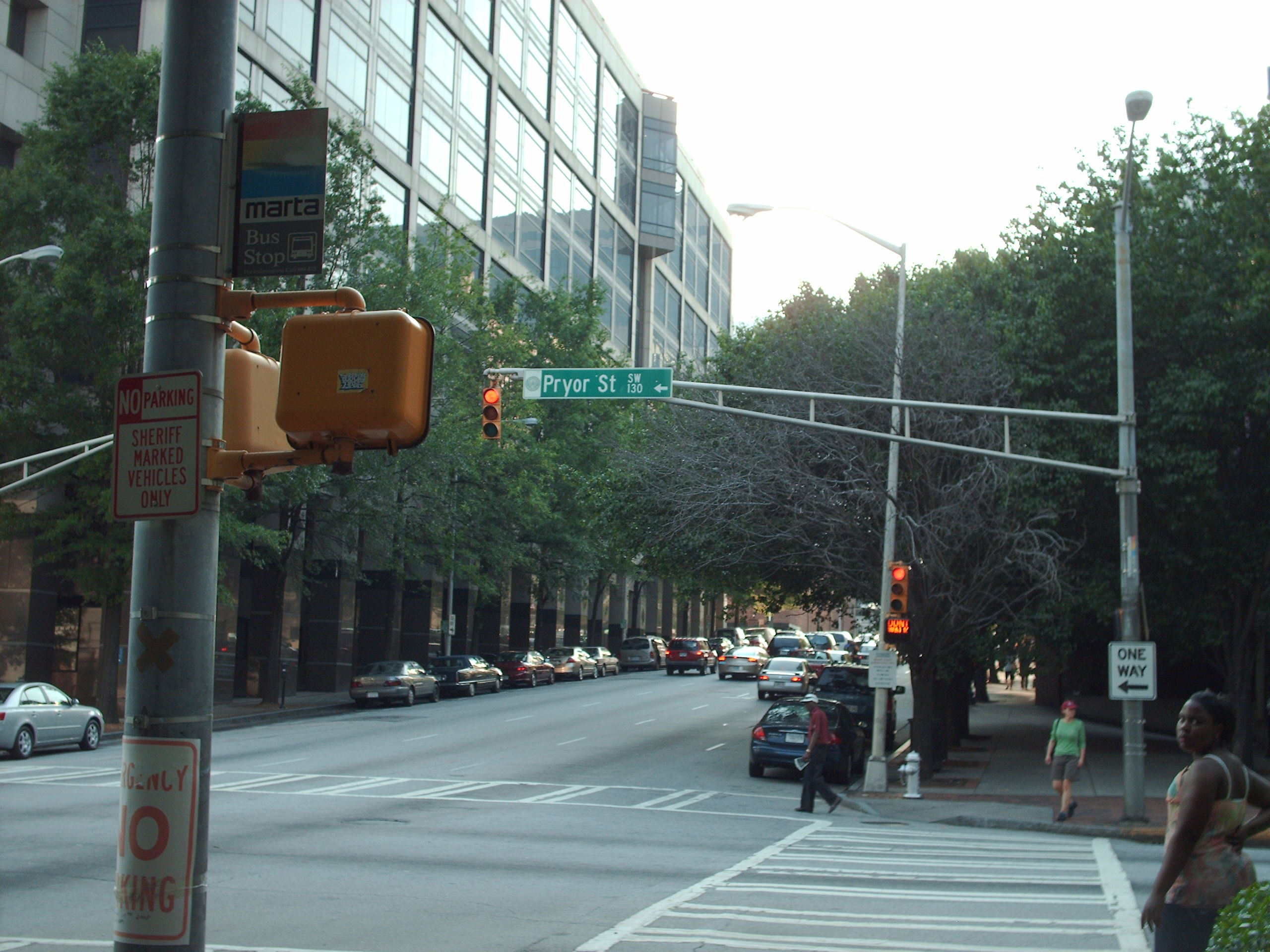 Pryor Street SW, one of the seven original streets of Atlanta. This picture was taken at the corner of Pryor Street SW and Martin Luther King Jr. Drive SW, near the Fulton County Courthouse.